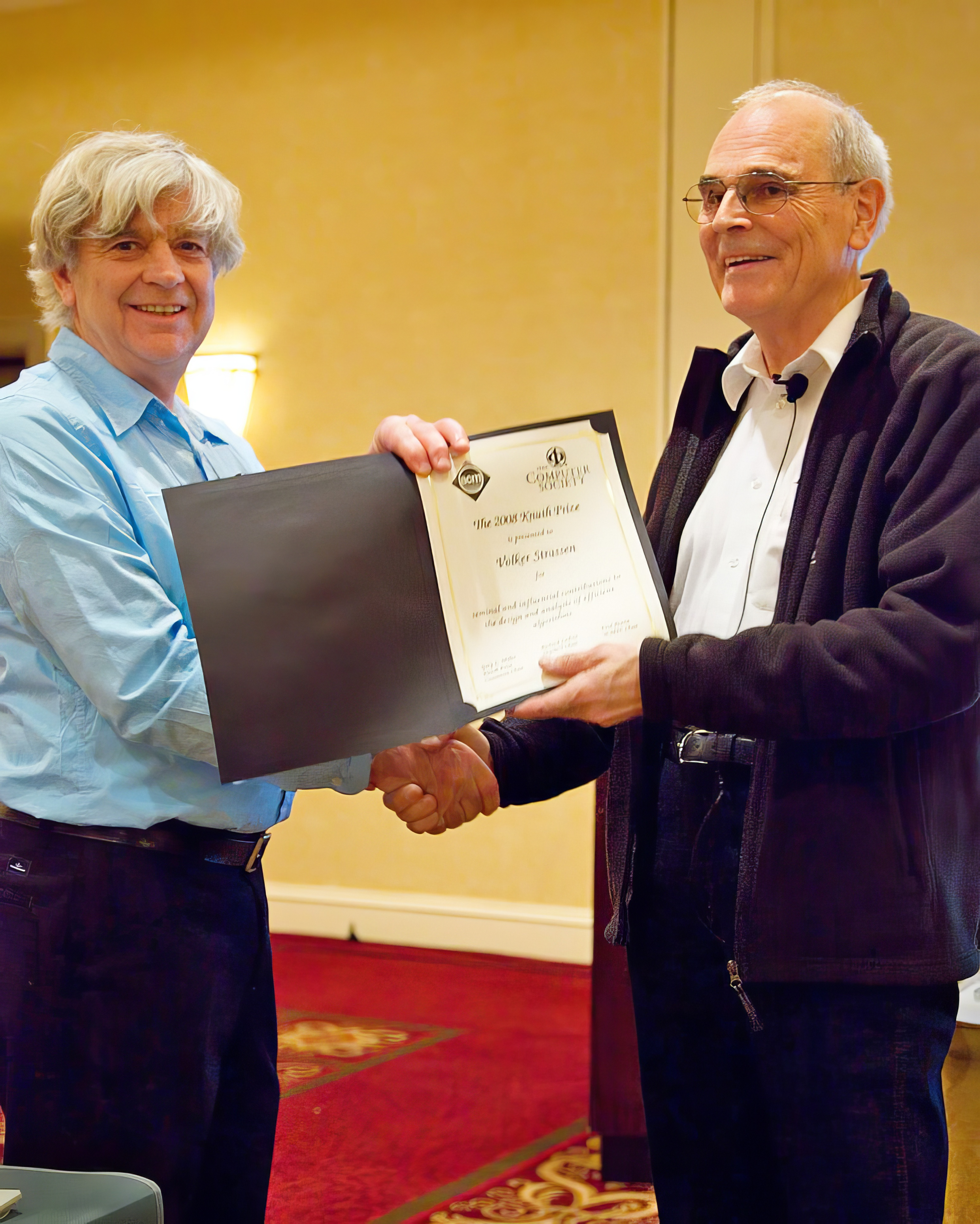 Volker Strassen (right) is presented with the 2008 Knuth Prize by Gary Miller at the 20th ACM-SIAM Symposium on Discrete Algorithms, January 5, 2009, at the New York Downtown Marriott Hotel in New York City.